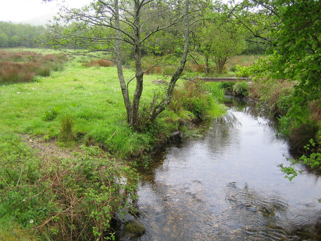 A section of the East Webburn River in Dartmoor, England